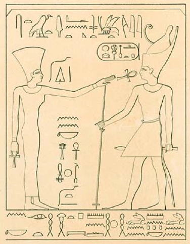 Rock inscription from Sehel Island showing the godess Anukis giving the life sign to Neferhotep I of the 13th Dynasty. Drawing by Karl Richard Lepsius